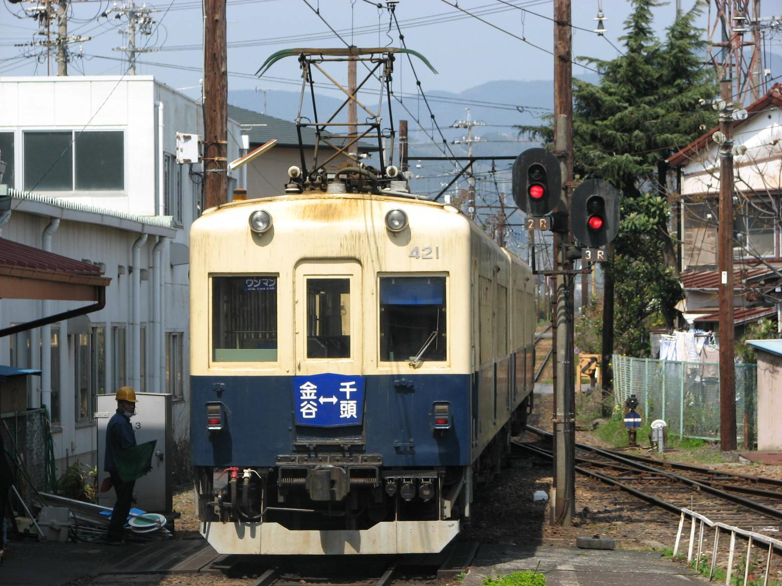 Ōigawa Railway type 421